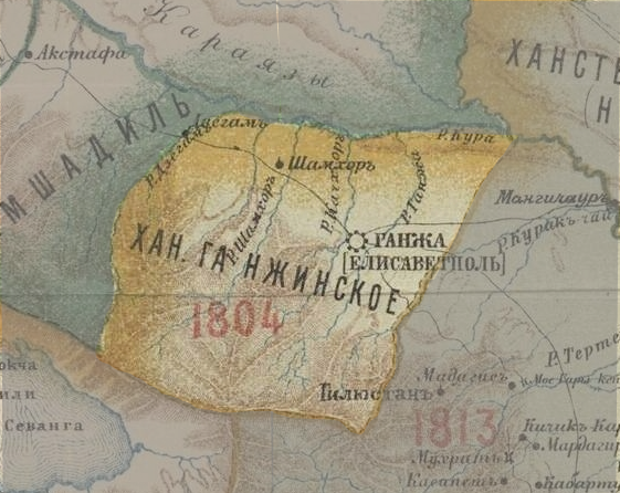 Khanate of Ganja in the Map of Caucasus with the borders 1801-1813.png